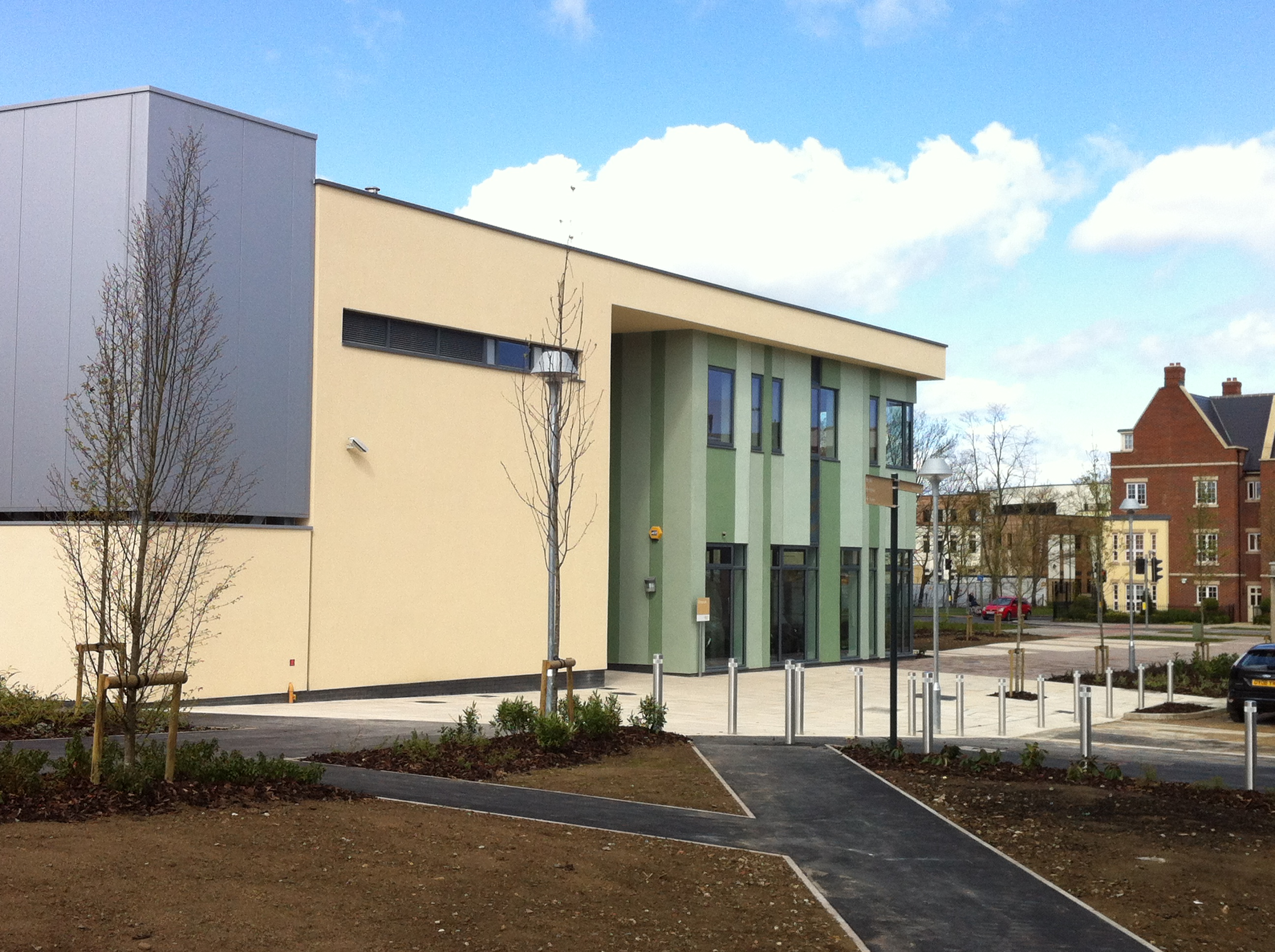 One of the new buildings at the Witney campus of Abingdon & Witney College in Oxfordshire.